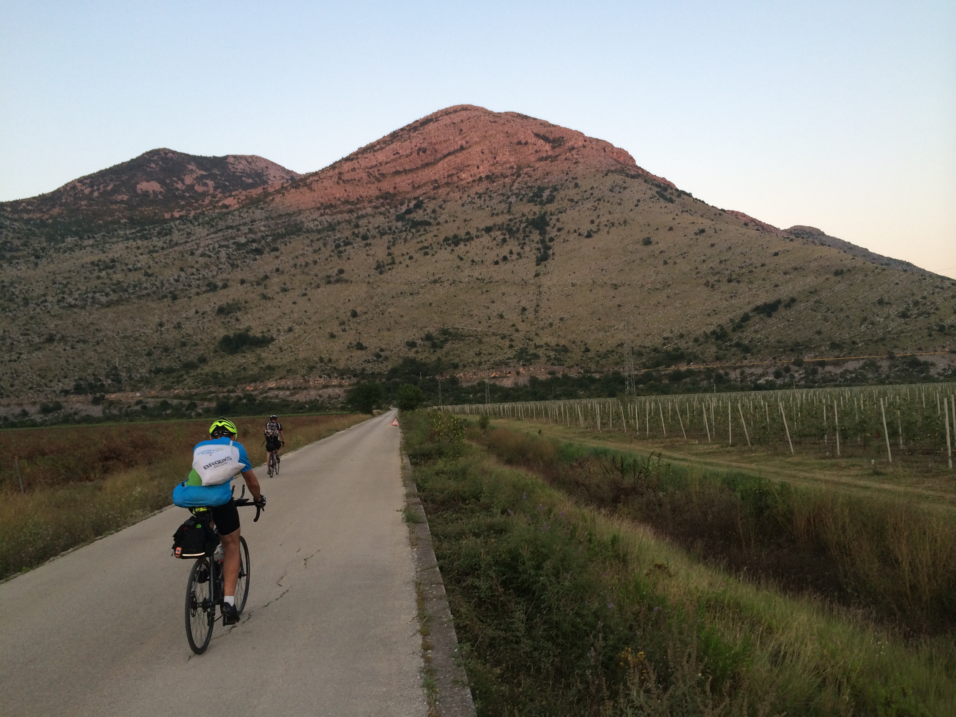 Cyclists in Bosnia during the 2014 Transcontinental Race